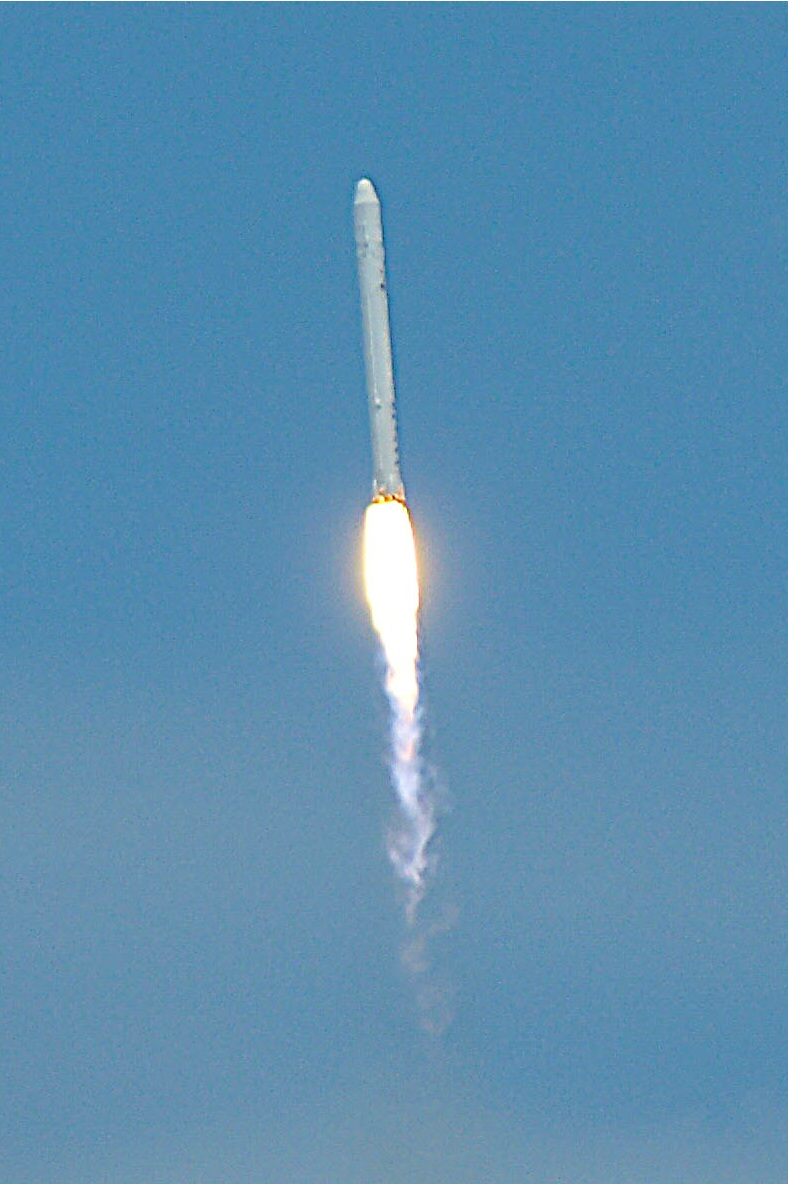 The Falcon 9 rocket launches from Cape Canaveral, Florida (cropped from original image).